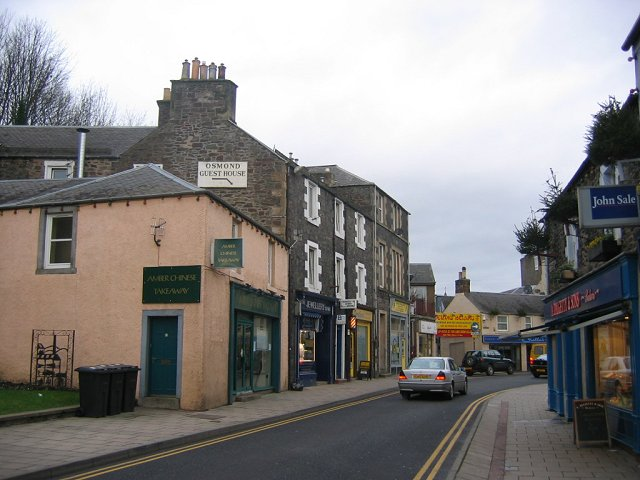 Galashiels.